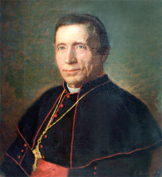 James Cardinal Gibbons c. 1890 Estate of Mrs. Gerda F. Vey